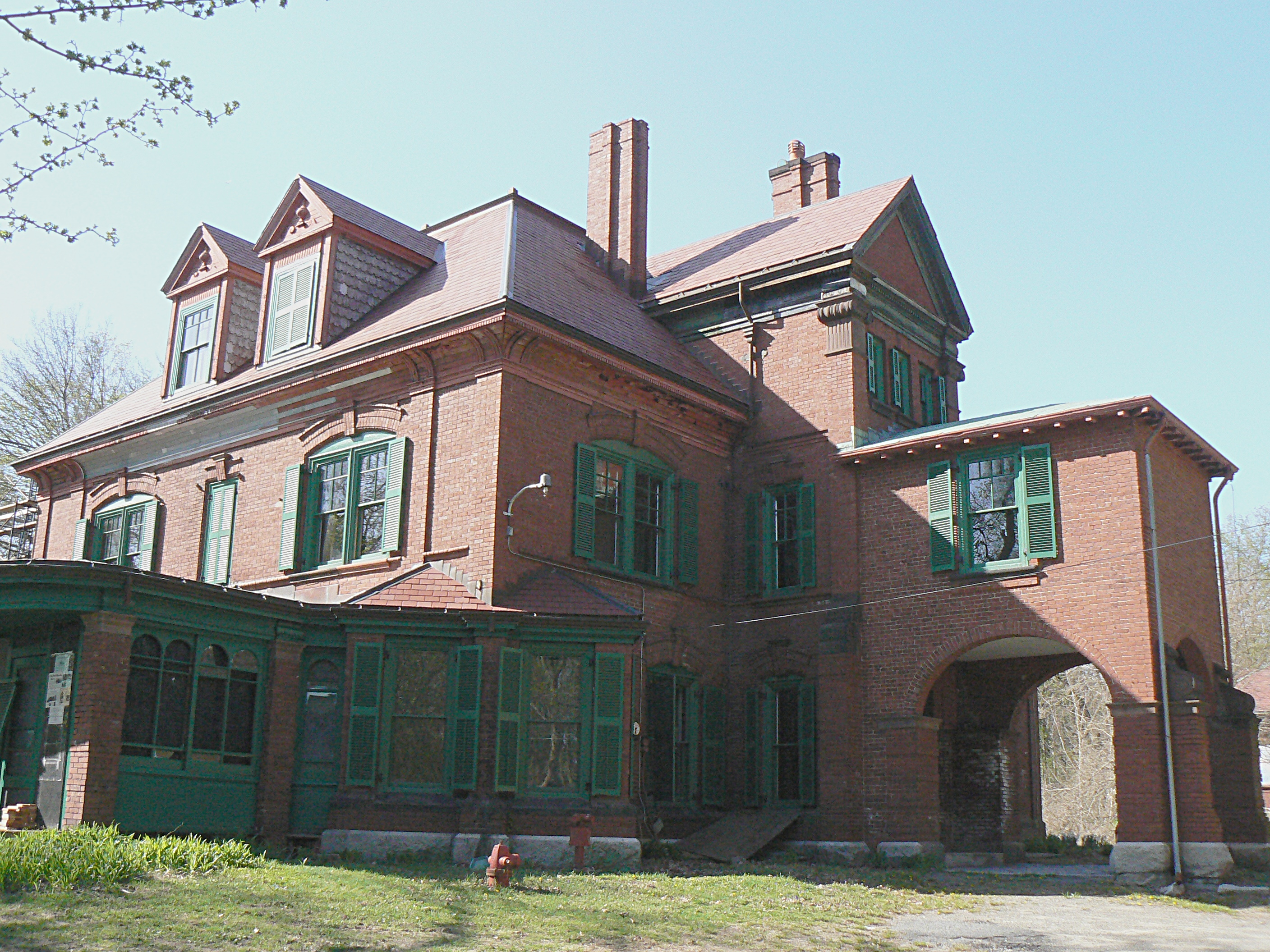 The main house at the Shepherd Brooks Estate in Medford, Massachusetts.